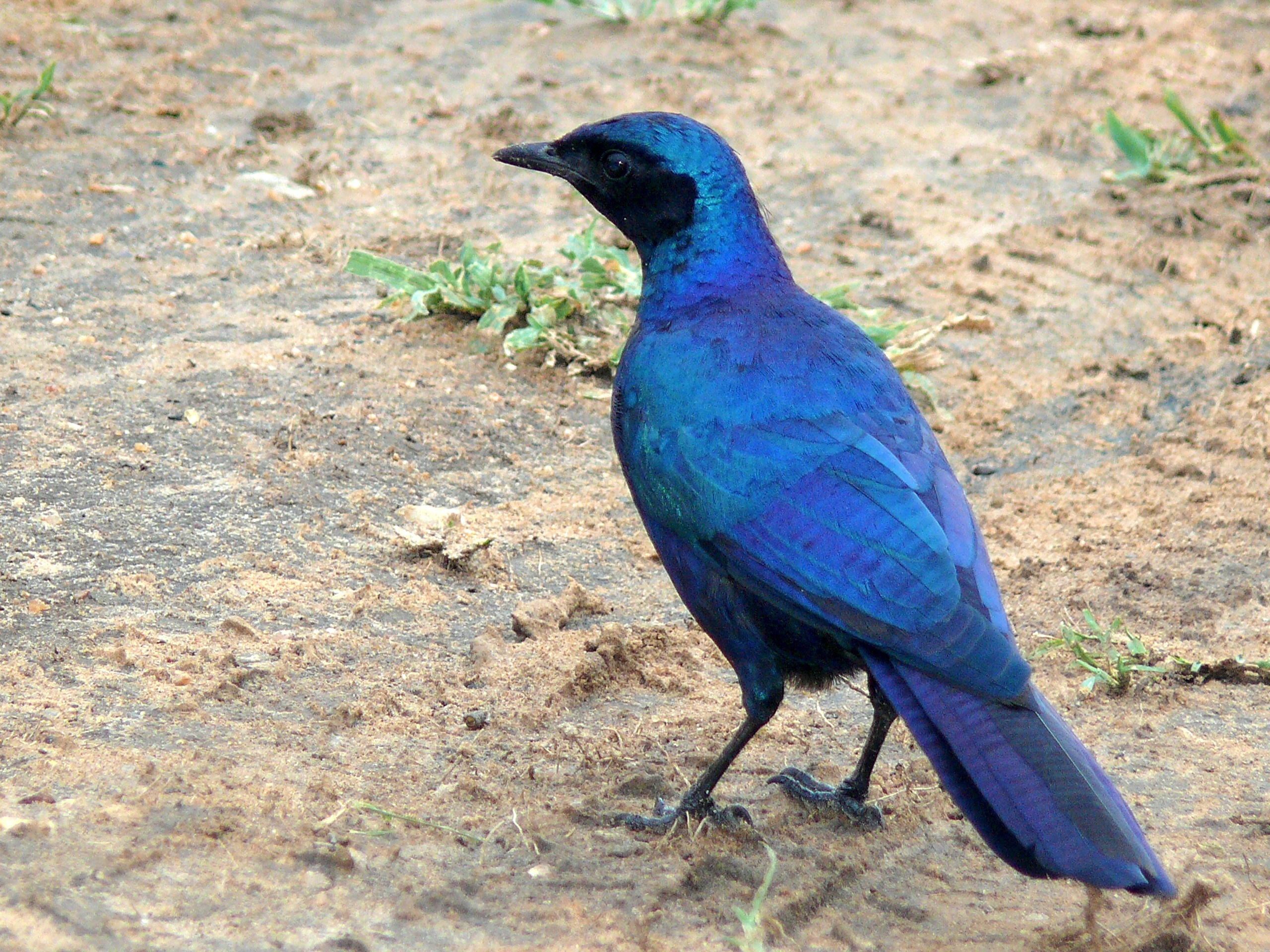 H1-2 Leeupan West of Tshokwane, Kruger NP, SOUTH AFRICA